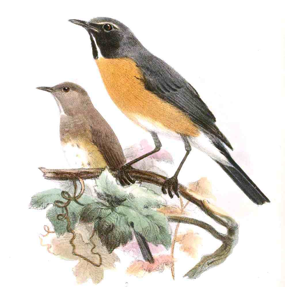 « Bessornis albigularis » = Irania gutturalis (White-throated Robin)